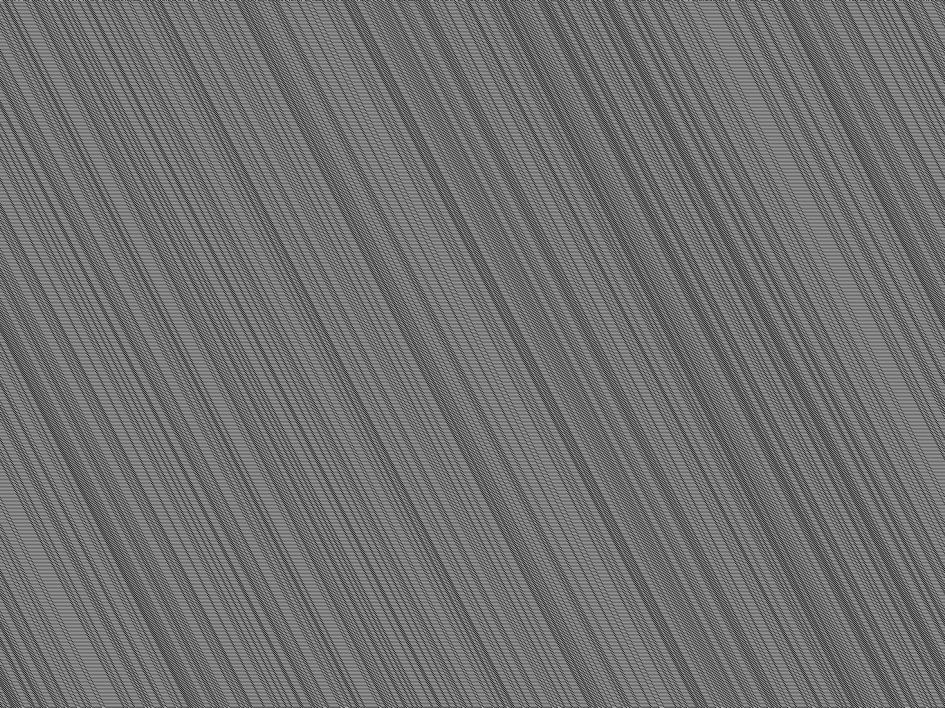 Rule 3 with random conditions